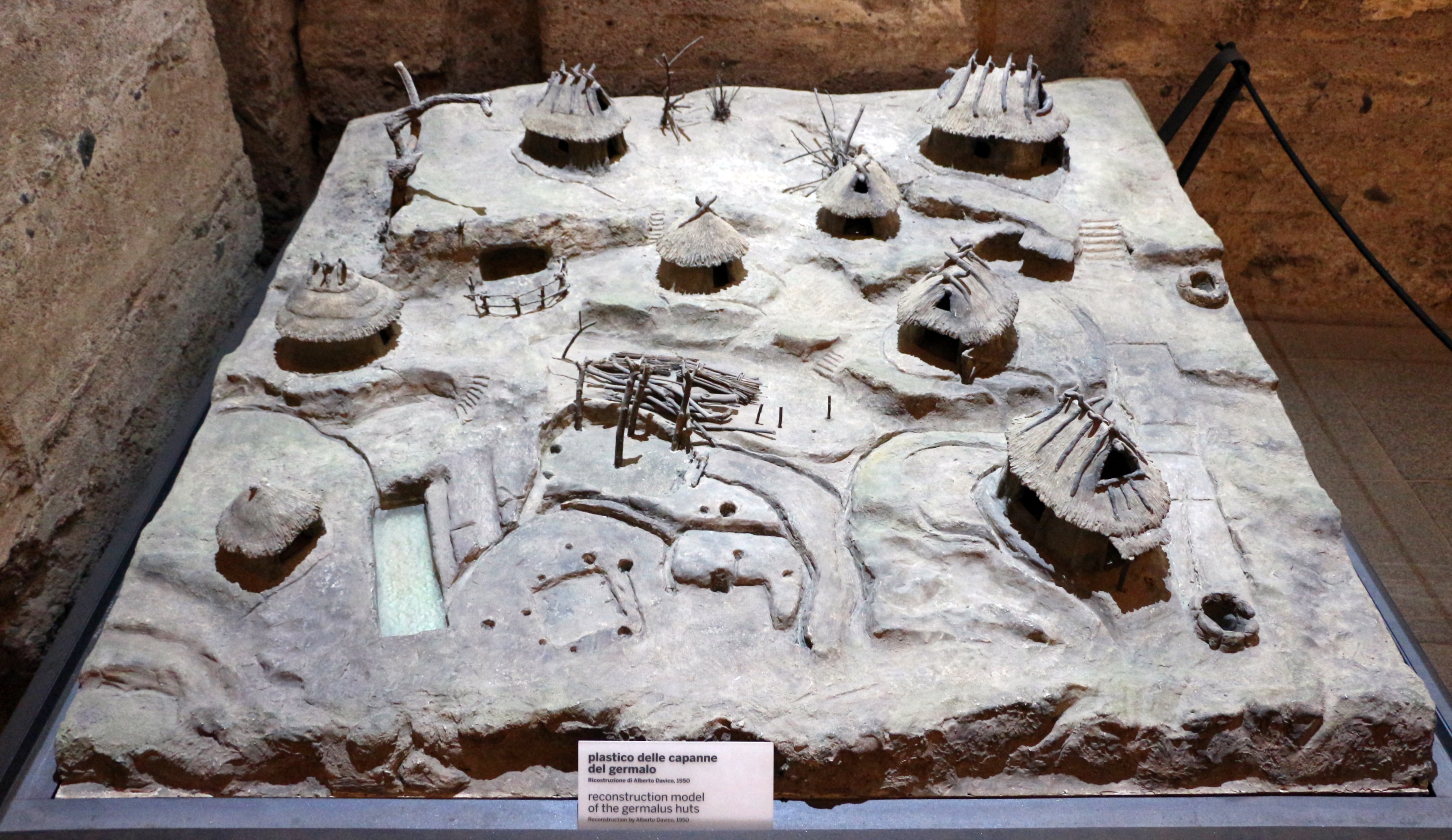 Antiquarium del Palatino (Rome)